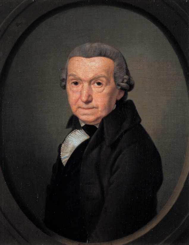 Caspar Bernhard Hardy oil on canvas 49 x 39 cm 1808